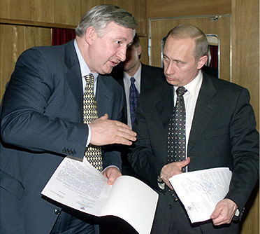 President Putin meeting with Railways Minister Nikolai Aksyonenko on a way from Tomsk to Omsk.